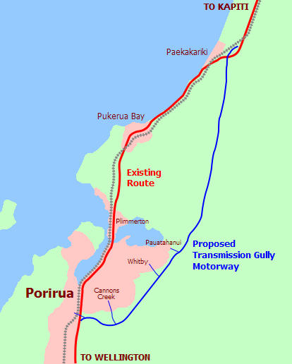 Map showing the proposed Transmission Gully road in Wellington, New Zealand.